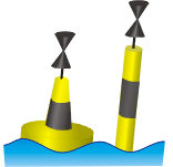 West cardinal mark in IALA system.